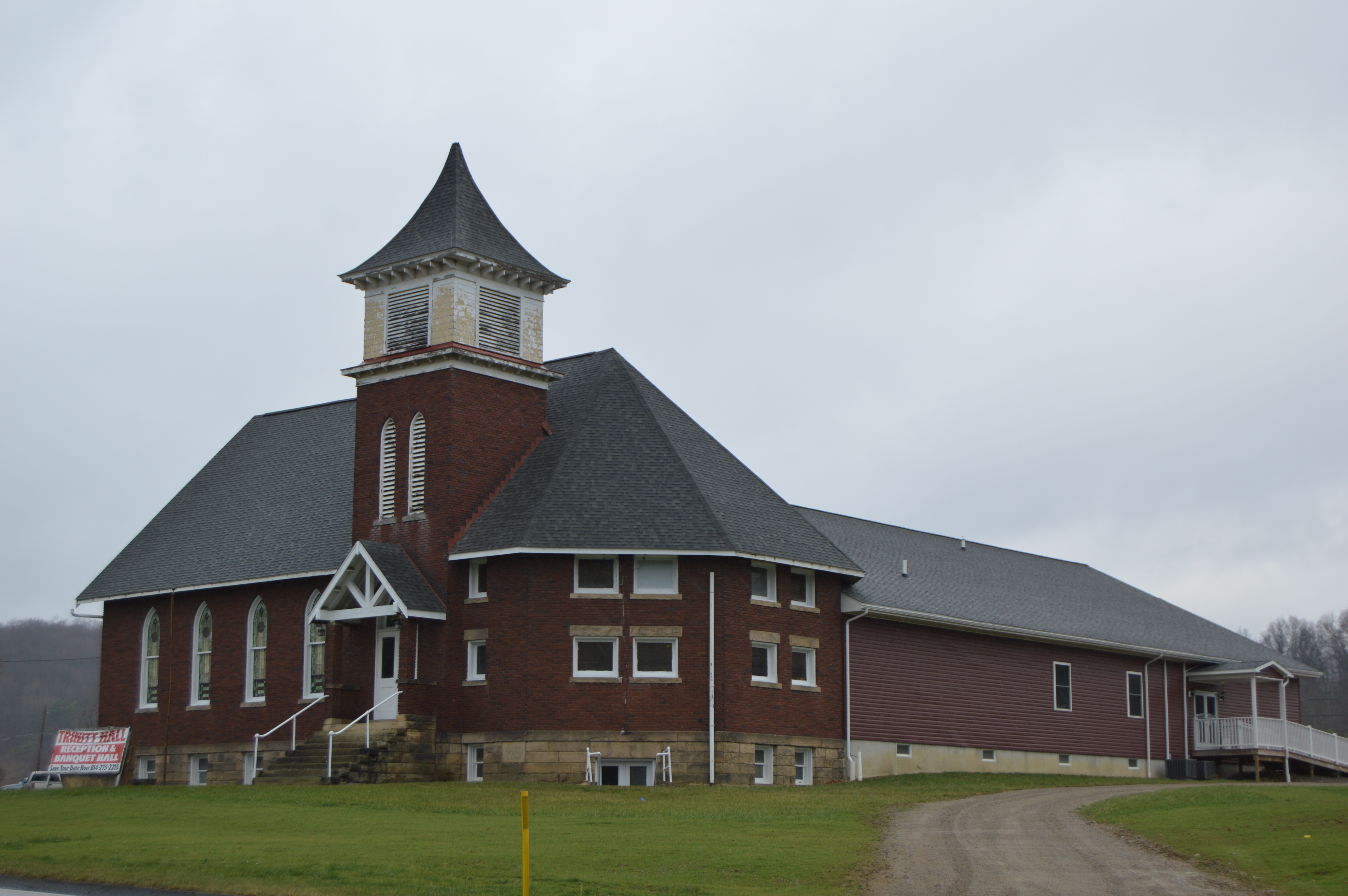 Trinity Hall conference center, formerly a church, located along Pennsylvania Route 28 just west of Hawthorn in Redbank Township, Clarion County, Pennsylvania, United States.